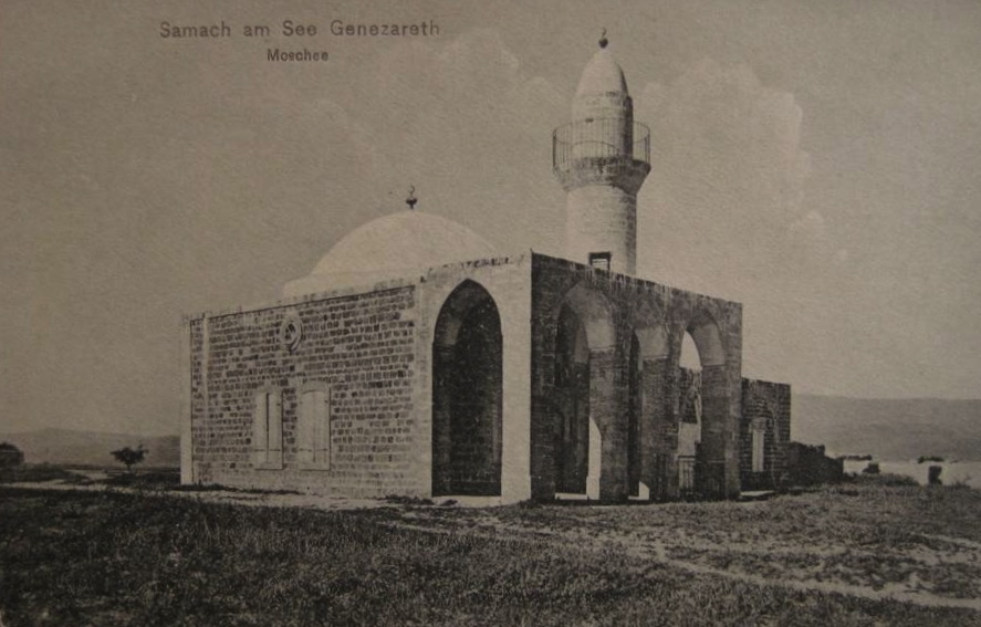 Samach, Palestine